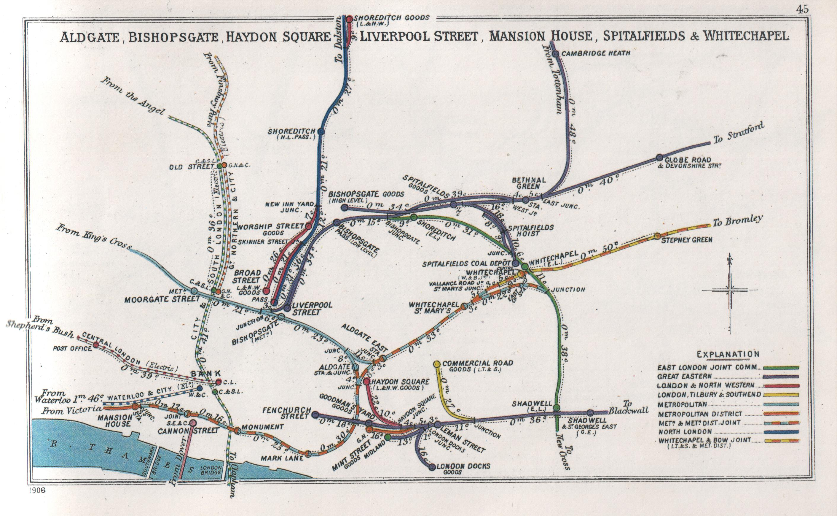 Railway Junctions in Aldgate, Bishopsgate, Haydon Square, Liverpool Street, Mansion House, Spitalfields & Whitechapel pre grouping